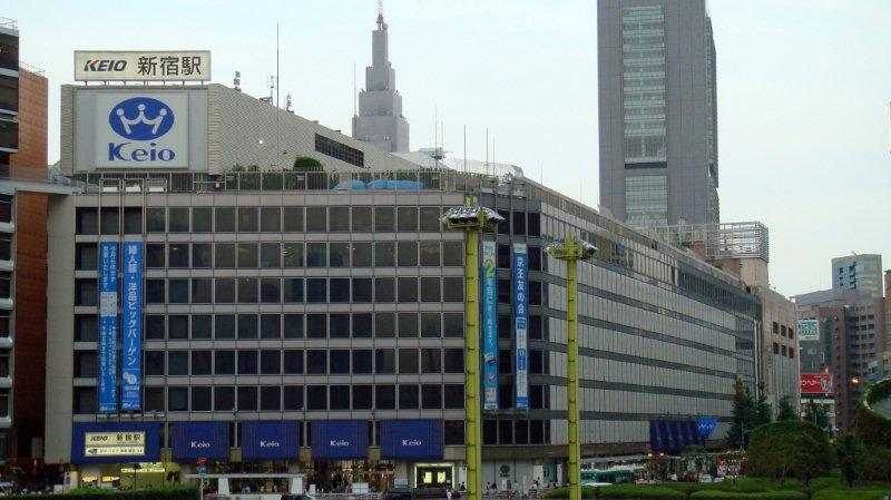 West-exit of Keio Shinjuku-station at TOKYO